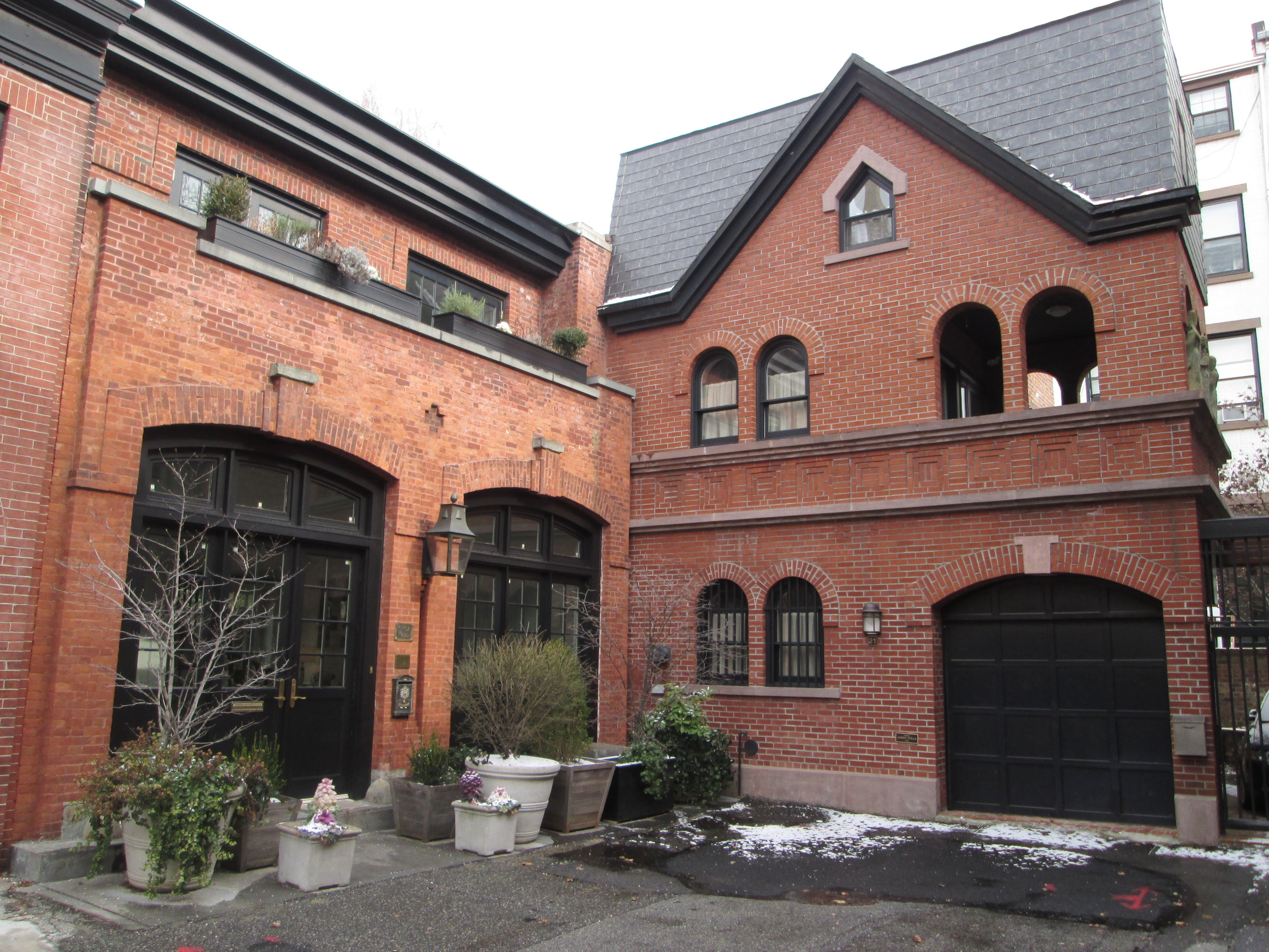 Grace Court Alley is a cul-de-sac in the Brooklyn Heights neighborhood of Brooklyn, New York City which runs east of Hicks Street. It was originally a mews (a row of stables) for mansions on Remsen and Joralemon Streets, to the north and south of the alley. It is located in the Brooklyn Heights Historic District. (Source: AIA Guide to NYC (5th ed.)) This image shows #19 (left), built in 1905, and #21 (right), built c.1900. (Source: NYC GIS map)